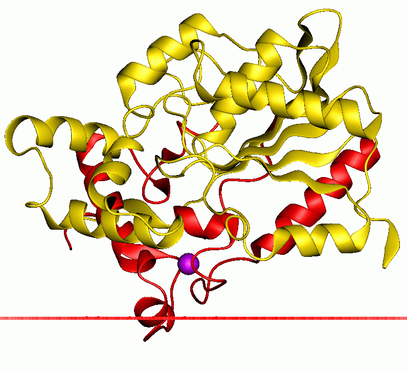 Protein image from OPM database